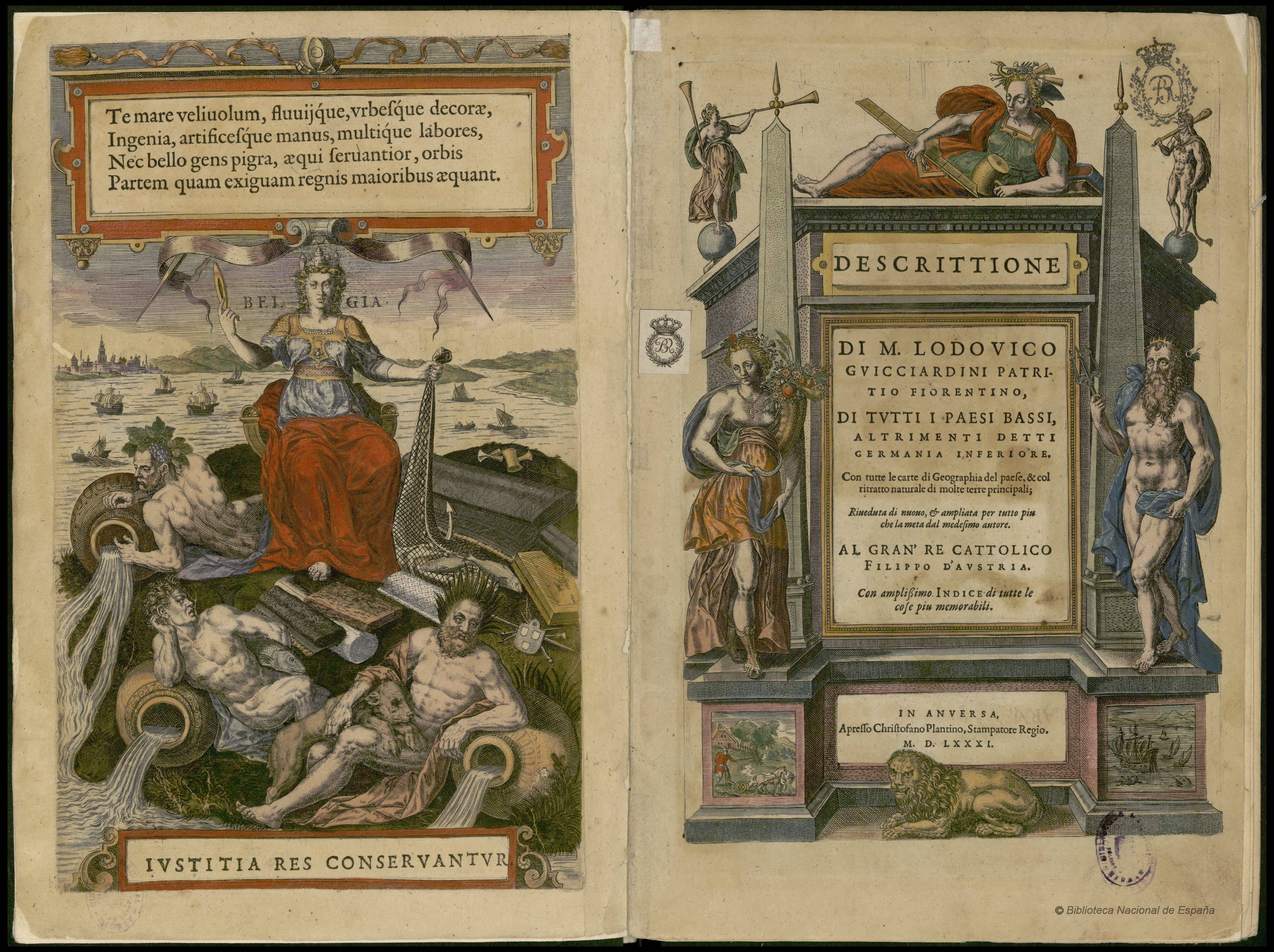 Descrittione di Lodovico Guicciardini patritio fiorentino di tutti i Paesi Bassi altrimenti detti Germania inferiore (1581); The Description of the Low Countries) was an influential account of the history and the arts of the Low Countries, accompanied by city maps.